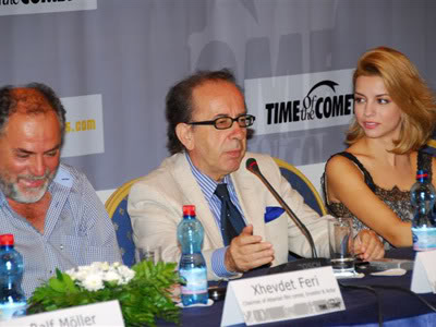 Masiela Lusha and Ismail Kadare answering questions during a press conference for the film, Time of the Comet